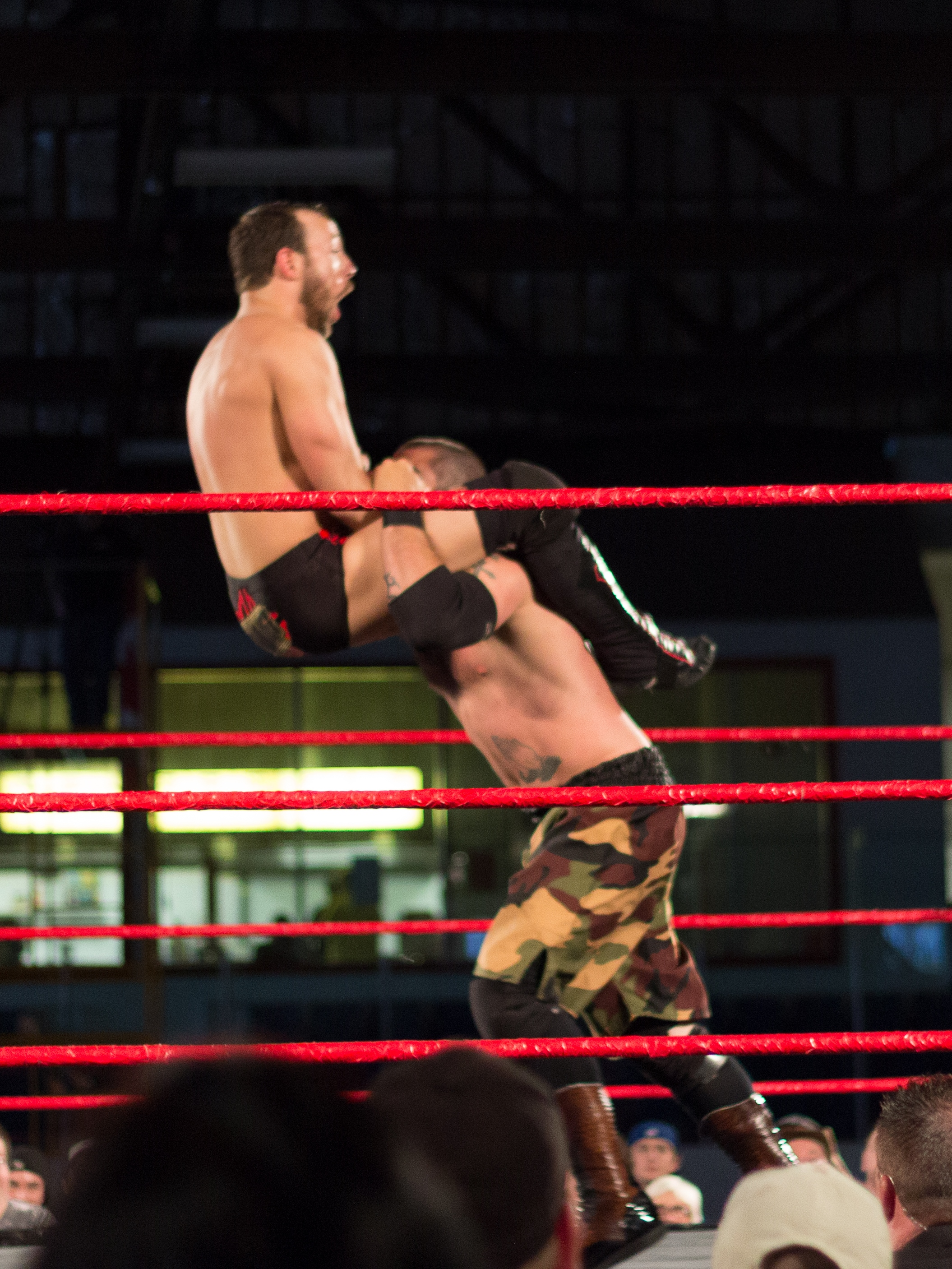 Mark Briscoe executing a powerbomb against Colin Delaney at the Ring of Honor tapings held at the Ted Reeve Arena in Toronto.